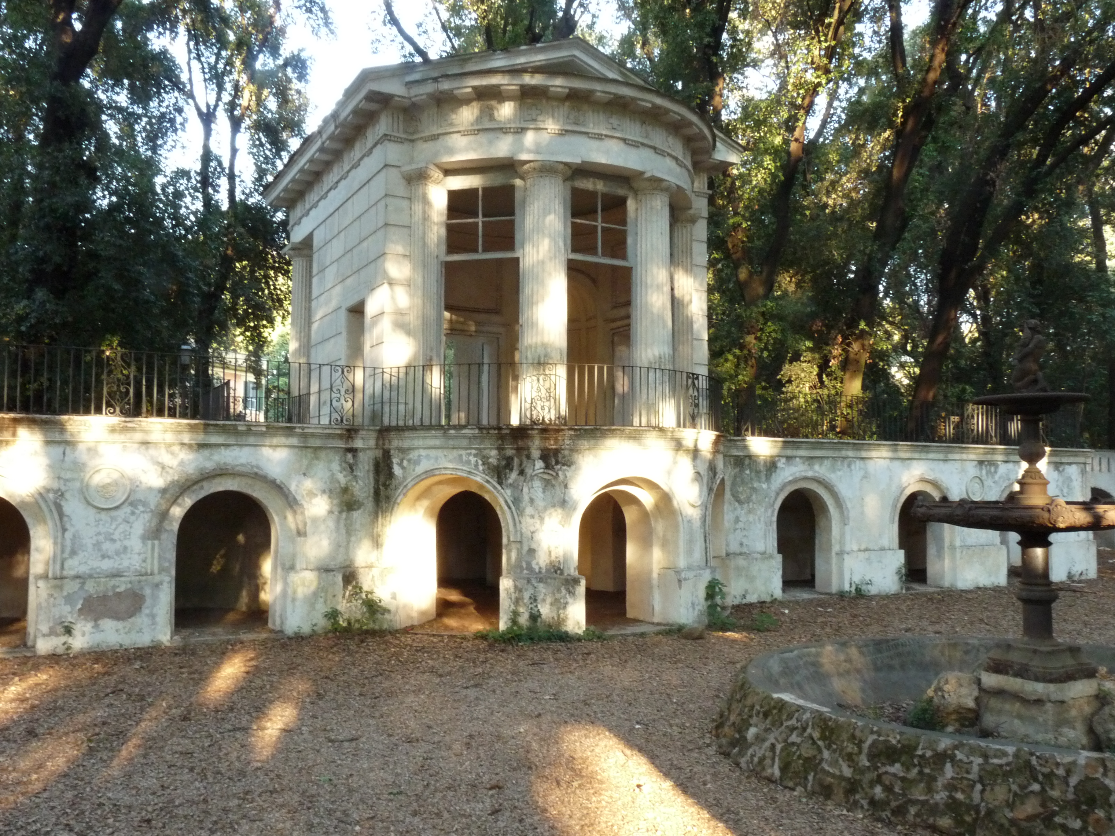 Building in Villa Ada (Roma)